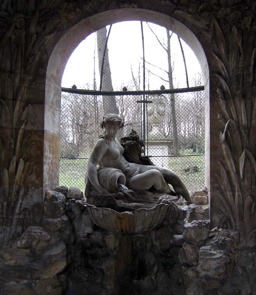 Schöner Brunnen at Schönbrunn